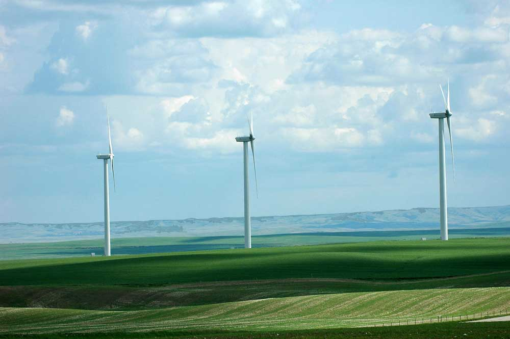 Three of the 20 wind turbines at the Magrath Wind Power Project in southern Alberta. Photo by Chuck Szmurlo taken June 10 2005 with Nikon D70 and a Nikon 70- 200 f2.8 lens